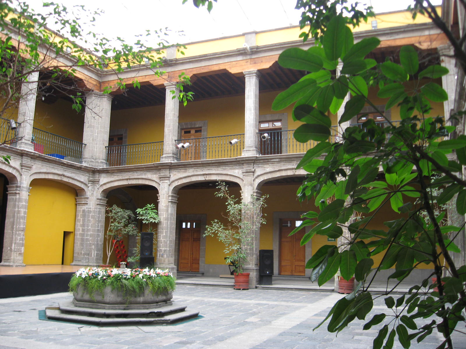 Interior patio of the Museo de la Secretaría de Hacienda y Crédito Público in Mexico City